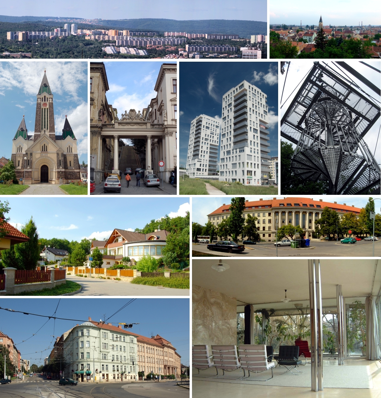 Panorama of Lesná